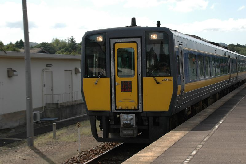 JR-West(JAPAN) Sanin-Line, Super-Oki Express photo by 2005.9.24